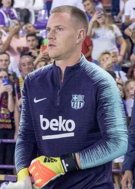 Real Valladolid - F. C. Barcelona, 2nd fixture of the 2018-19 La Liga, August 25, 2018.